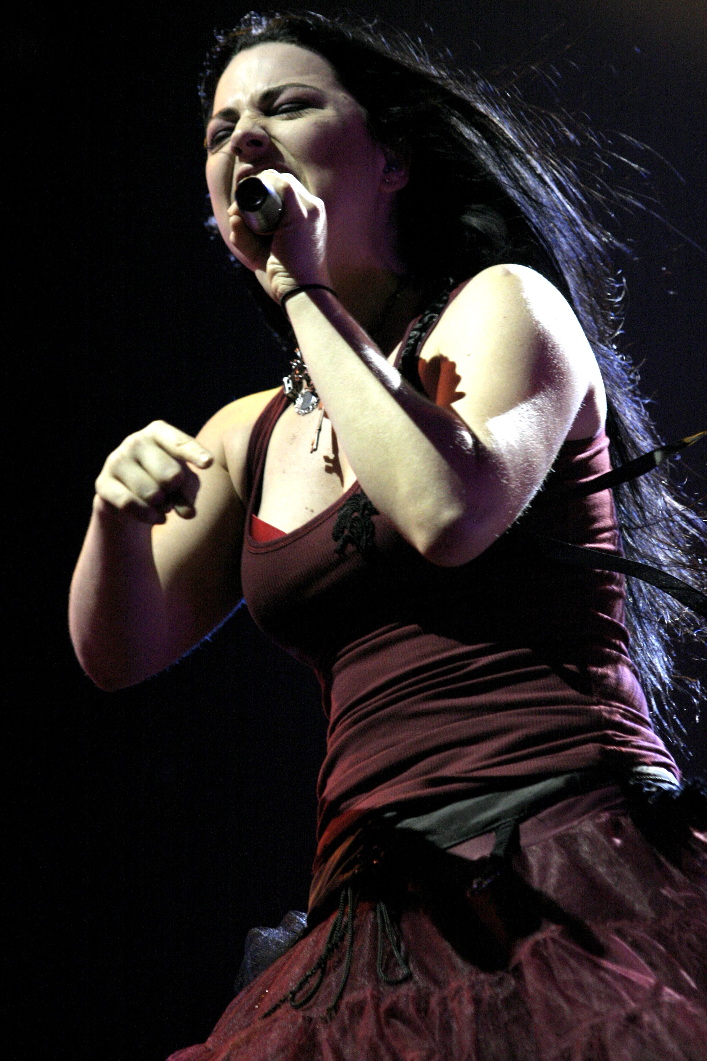 Amy Lee of Evanescence singing at a concert in São Paulo, Brazil.